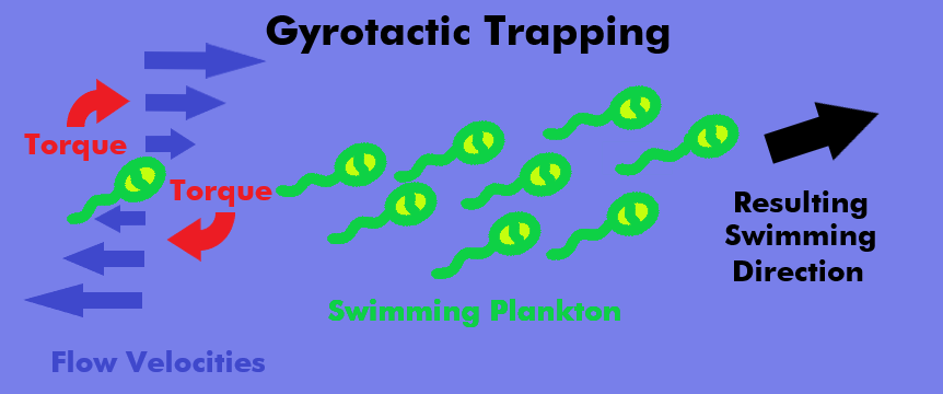 Gyrotactic trapping of swimming plankton due to sharp changes in flow velocities in the ocean. The fluid mechanics of this is also called gyrotaxis.